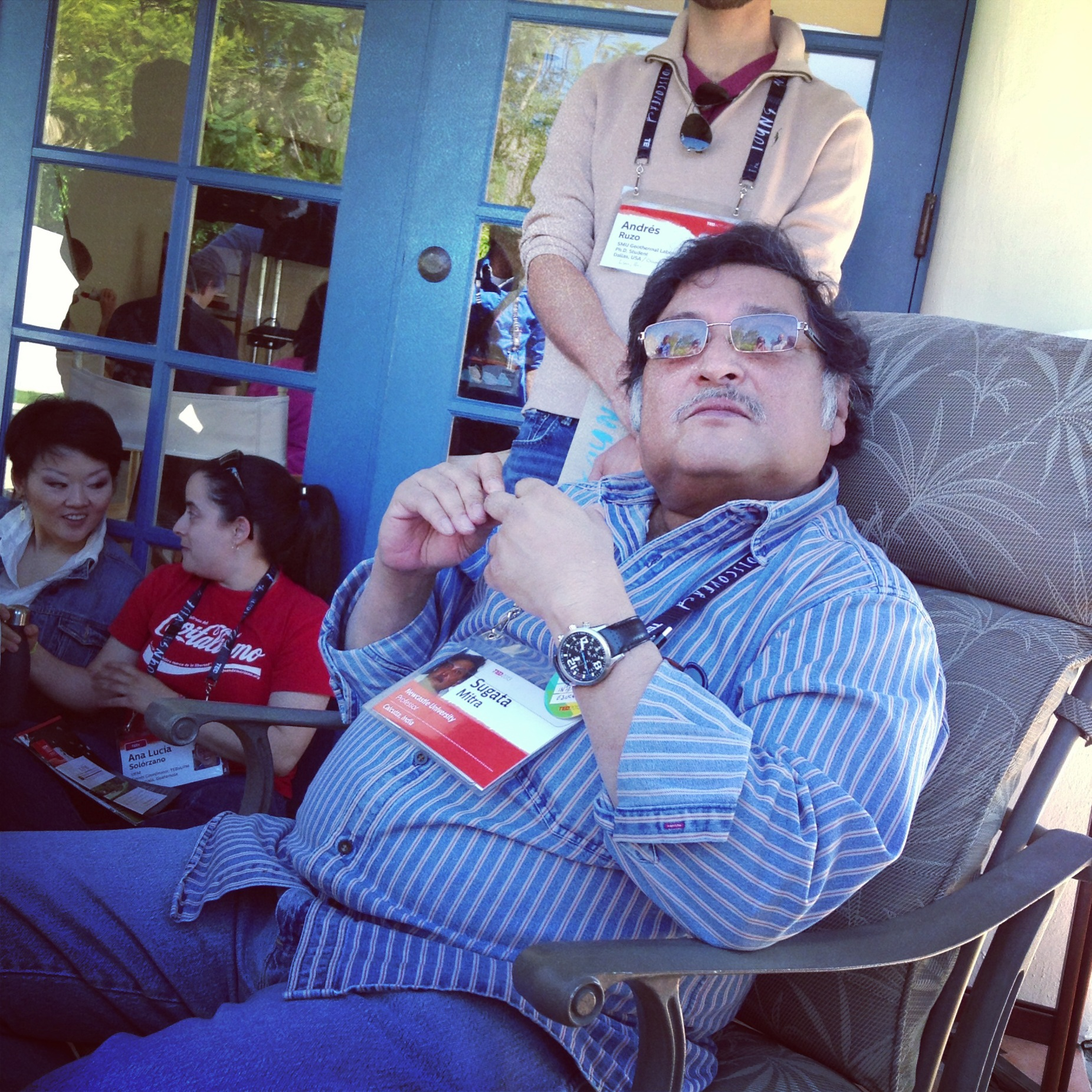 Sugata Mitra - Conversation after winning TEDPrize.